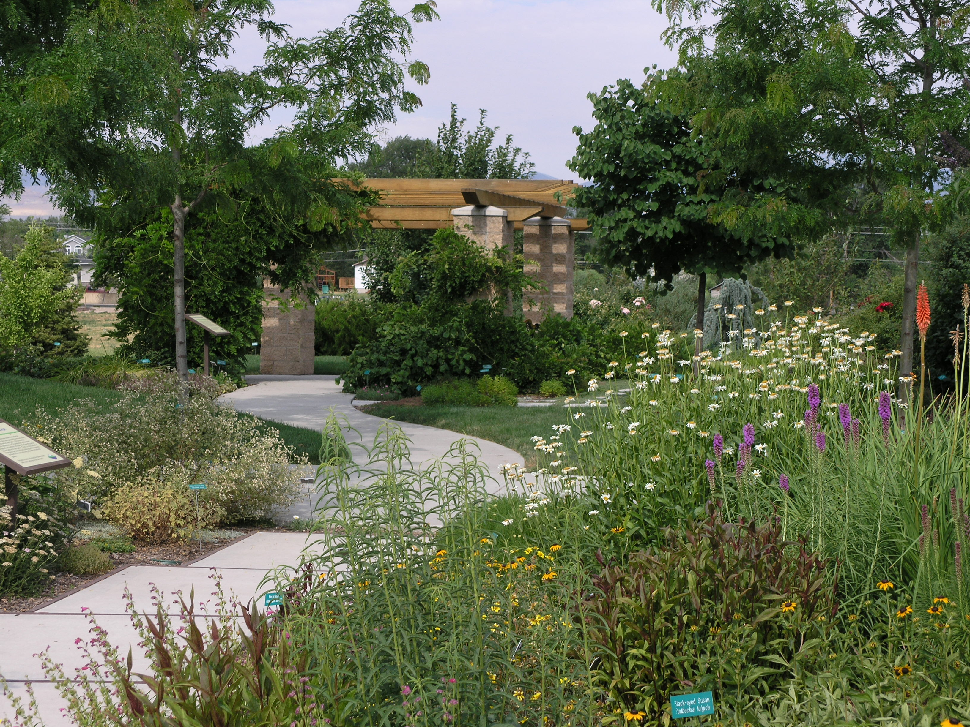 Perennial Garden in bloom